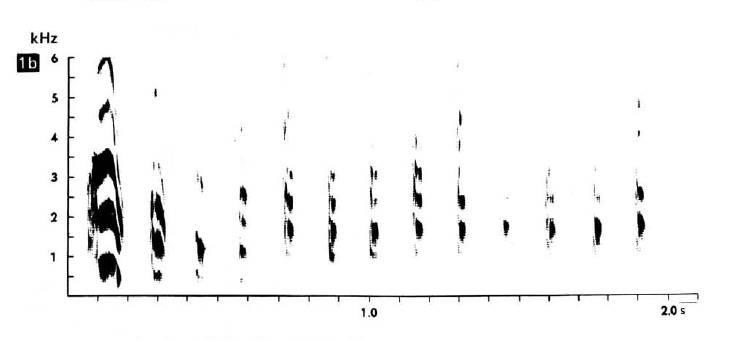 Sonogram of the wail chatter of a Reunion Harrier (Circus maillardi). The unit of the x axis is 1/10 s.